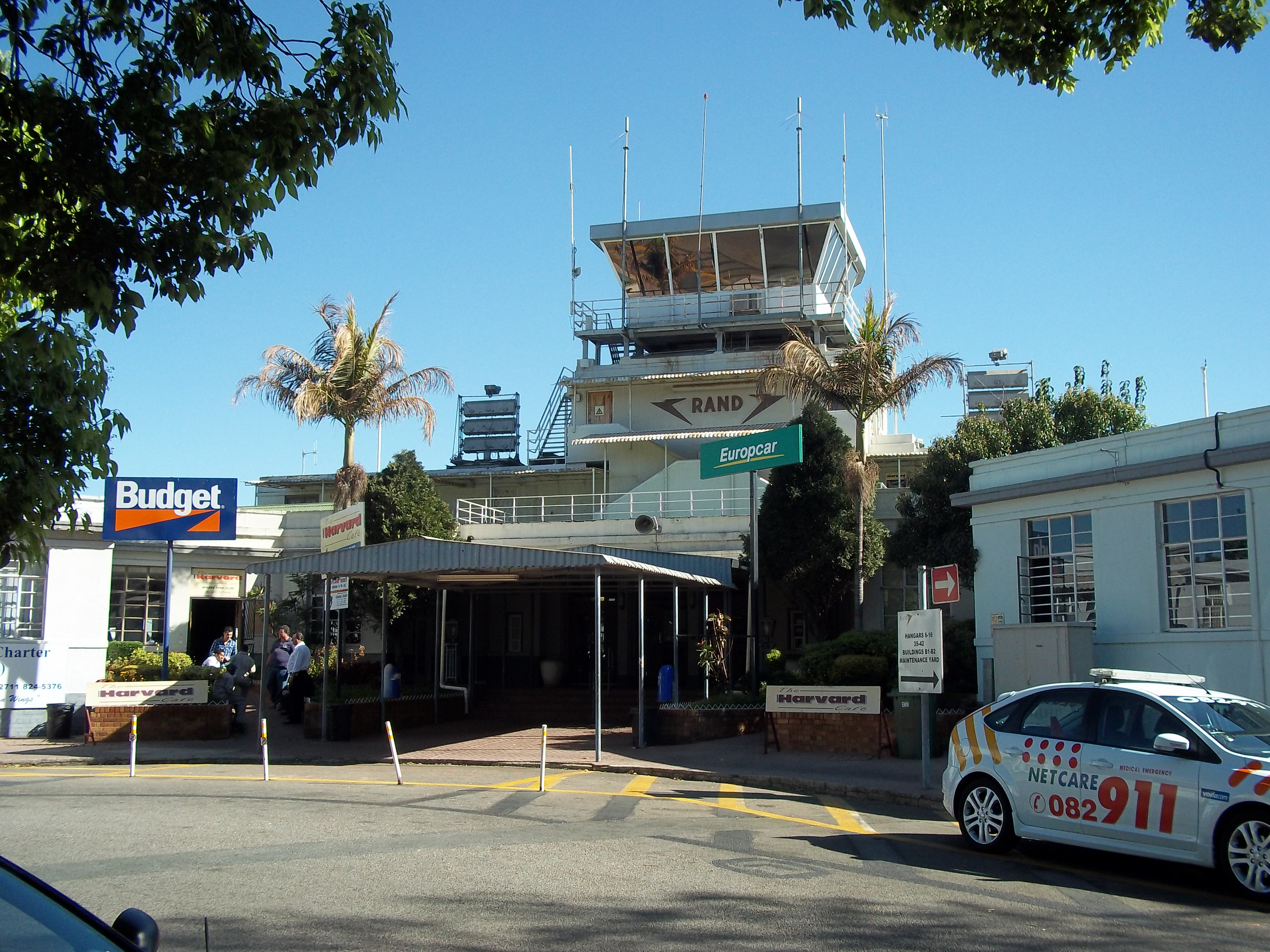 The landside entrance to the terminal building at Rand Airport, Germiston, South Africa.